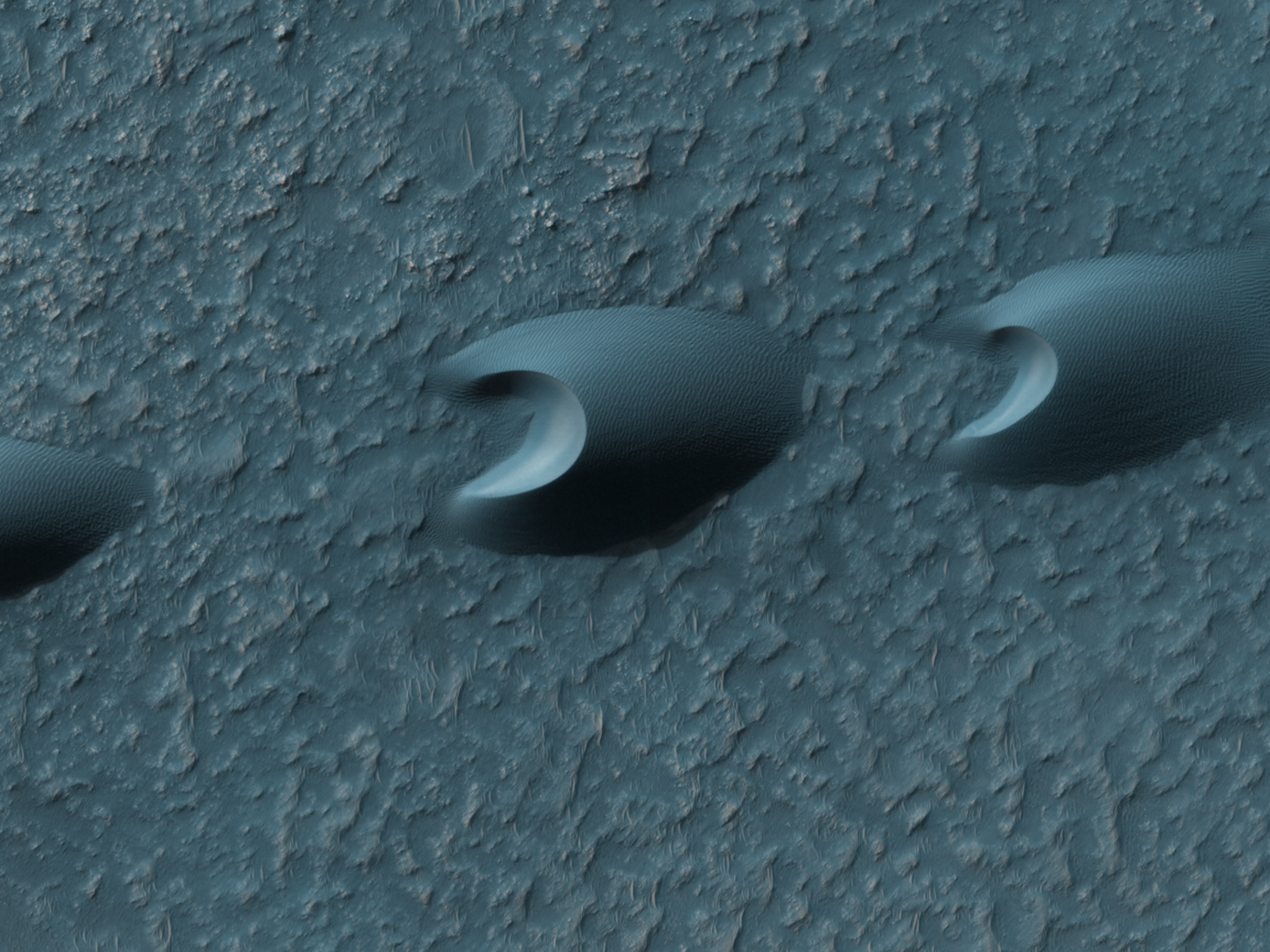 Barchan dunes on Mars's Hellespontus region as seen by HiRISE on the Mars Reconnaissance Orbiter. These dunes are formed into a saif, a linear formation parallel to the direction of the wind. See File:Barchan in Noachis.jpg for a similar formation in Noachis Terra.